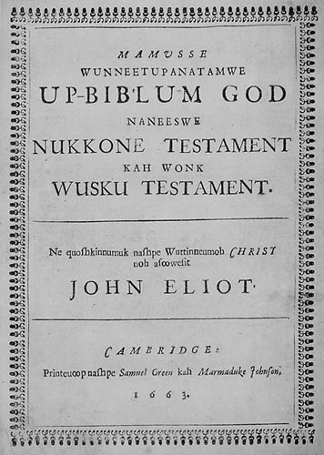 Title-page frome the Eliot Bible printed by Samuel Green and Marmaduke Johnson about 1663. Copy of the Pennsylvania University Library.